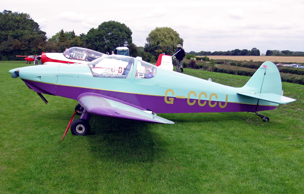 Nicollier HN700 Menestrel II at the Sywell LAA Rally in 2010